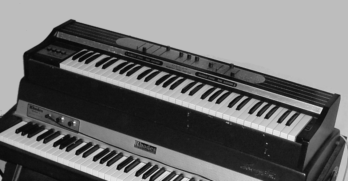 ELKA Rhapsody 610 on Rhodes Mark I E-Piano